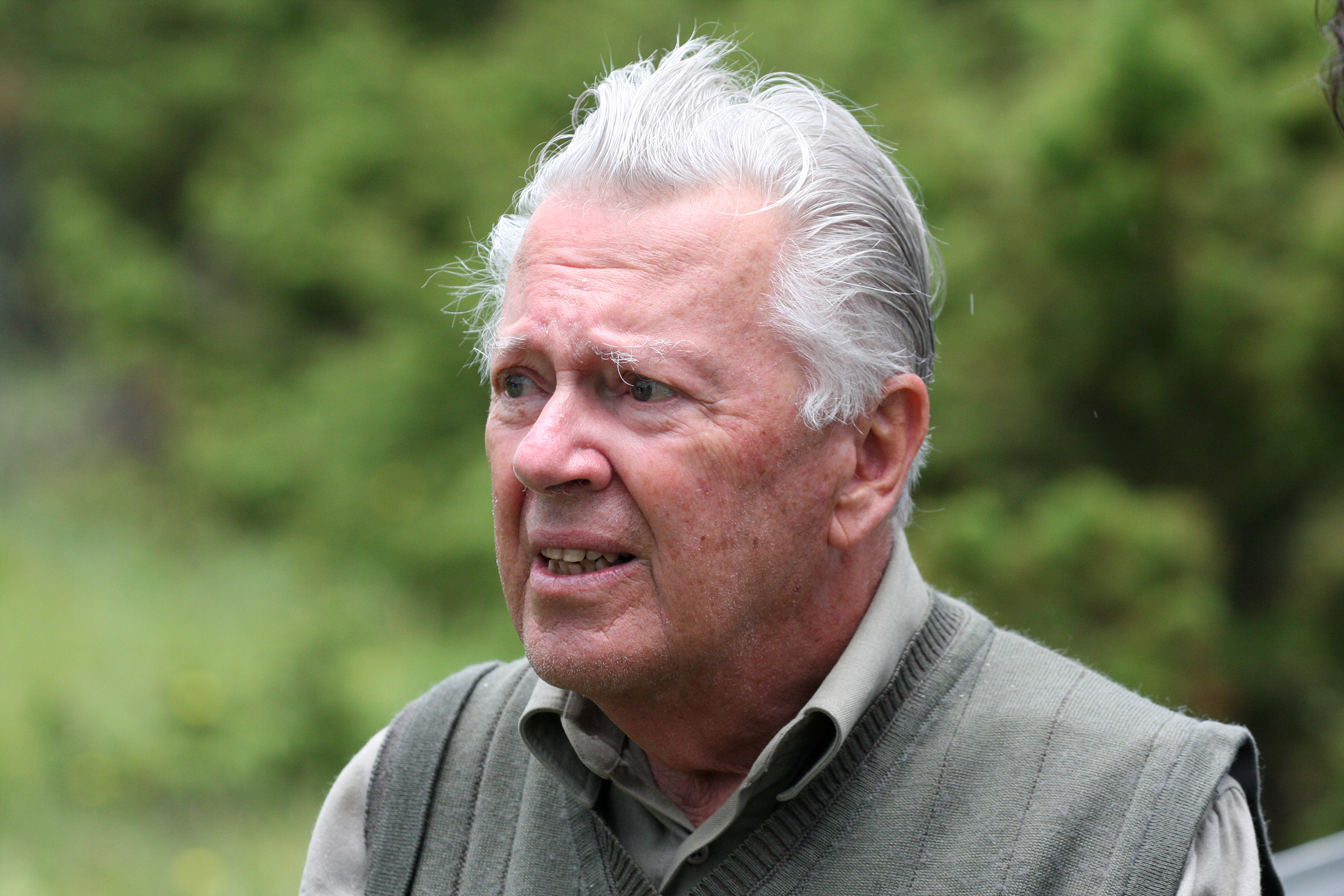 Austrian entomologist Heinz Habeler doing field work in Slovenian karst.